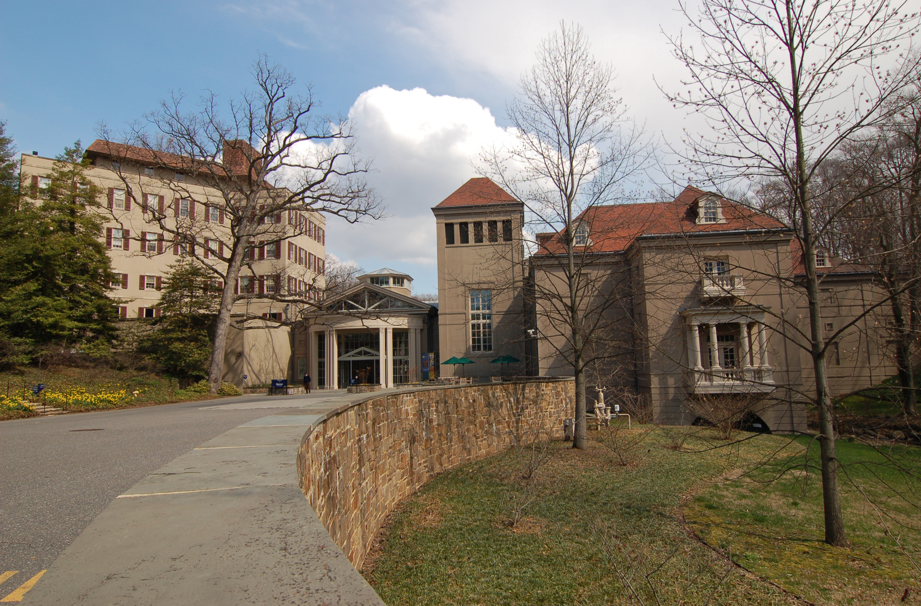 Photograph of the Winterthur Country Estate Museum. Barrel distortion was corrected in Photoshop. Perspective was left as shot.